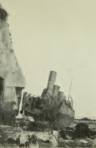 Royal Navy Tribal-class HMS Nubian run aground near Dover, ca. 27 October 1916